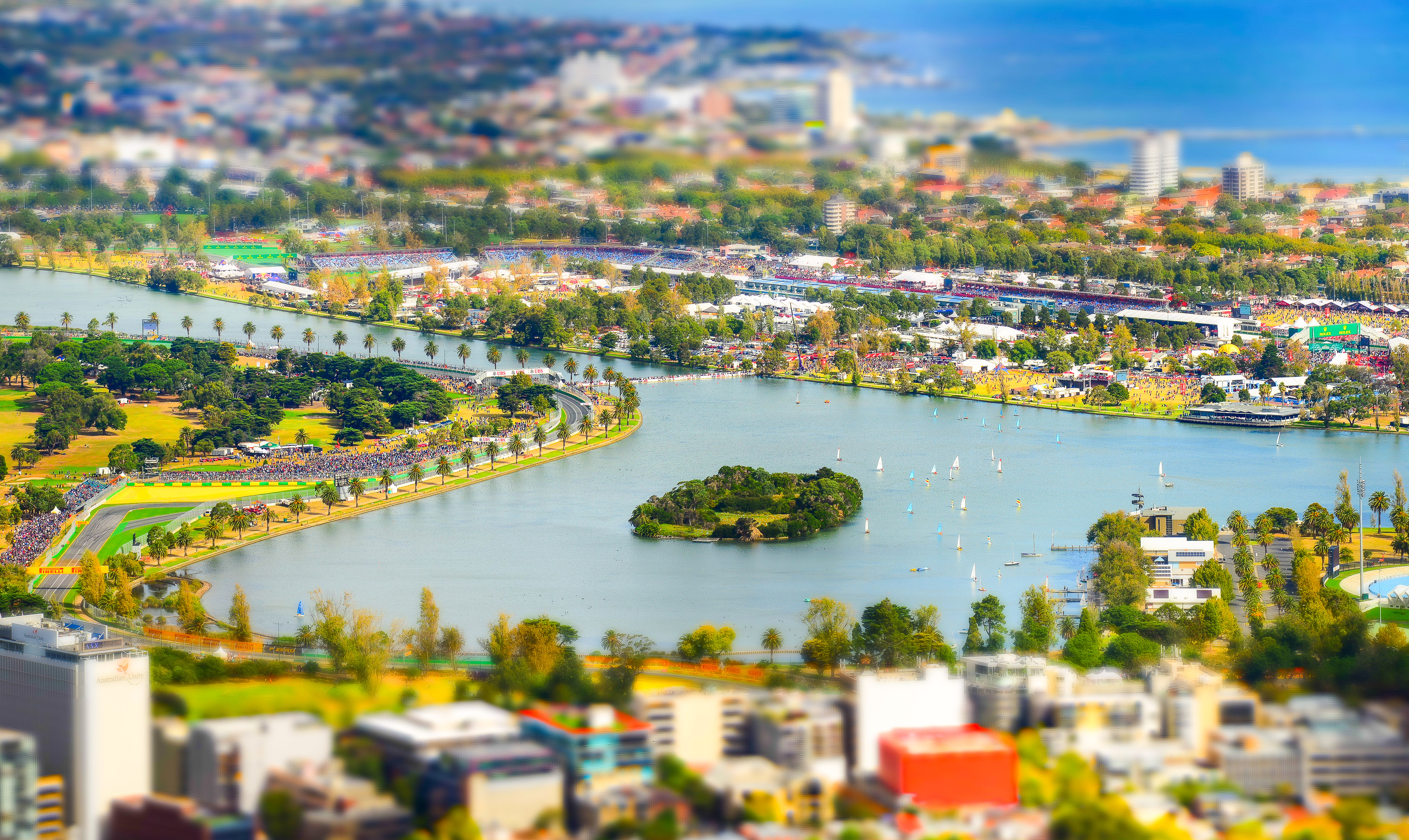 View of Albert Park from the Eureka Skydeck